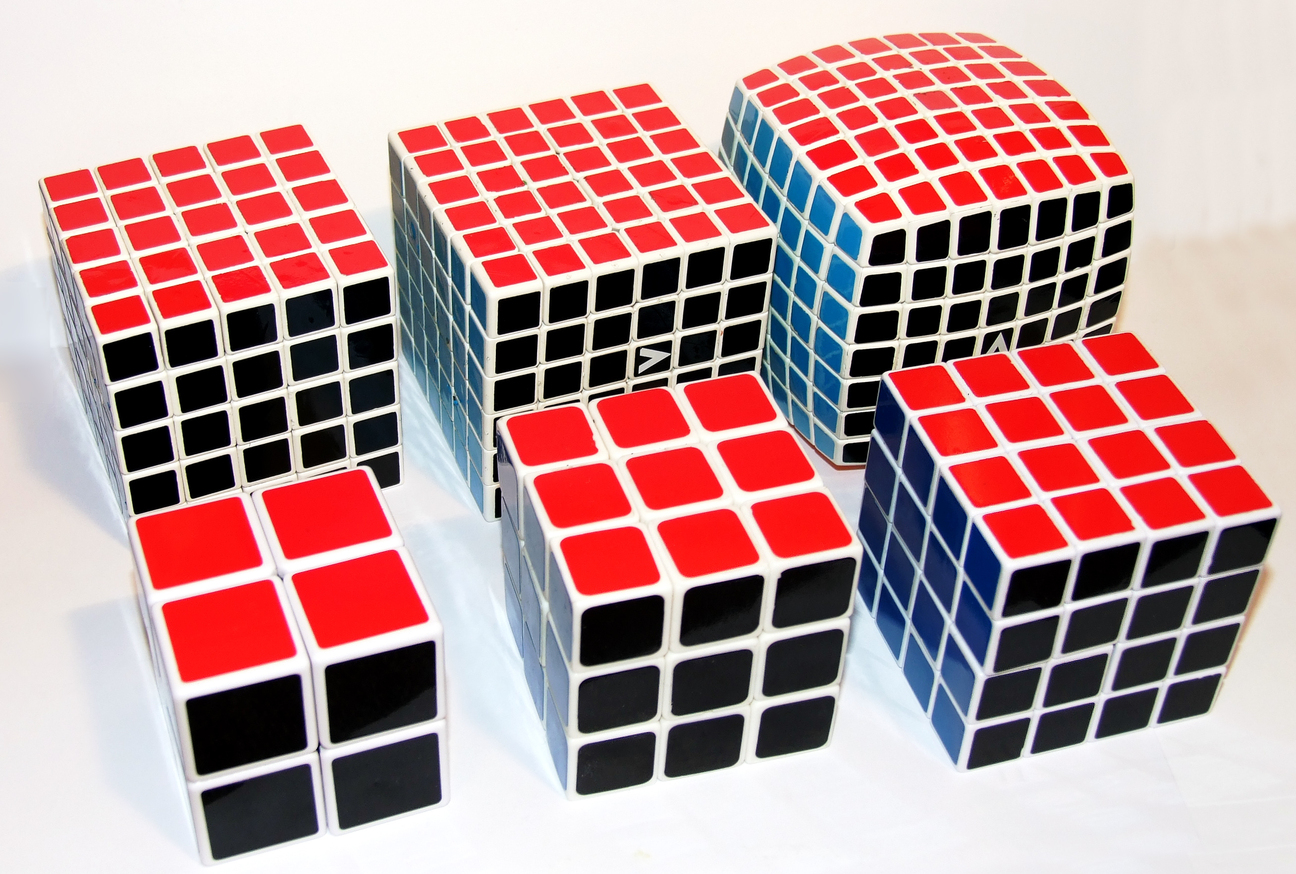 Rubik's cube, variations 2×2×2 - 7×7×7